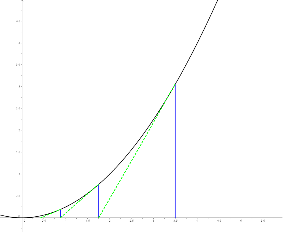 Approximation of function f(x)=(x^2)/4 using tangents.